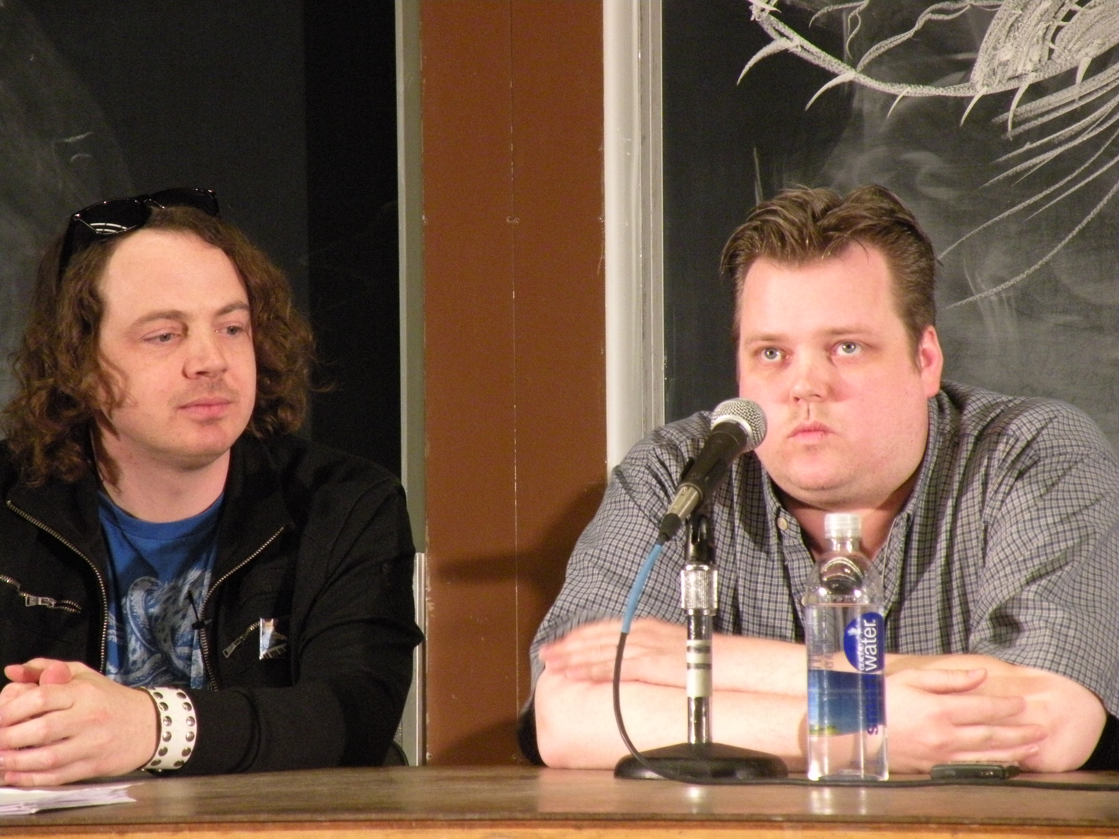 Aaron Yonda & Matt Sloan at ROFLCon 2010.